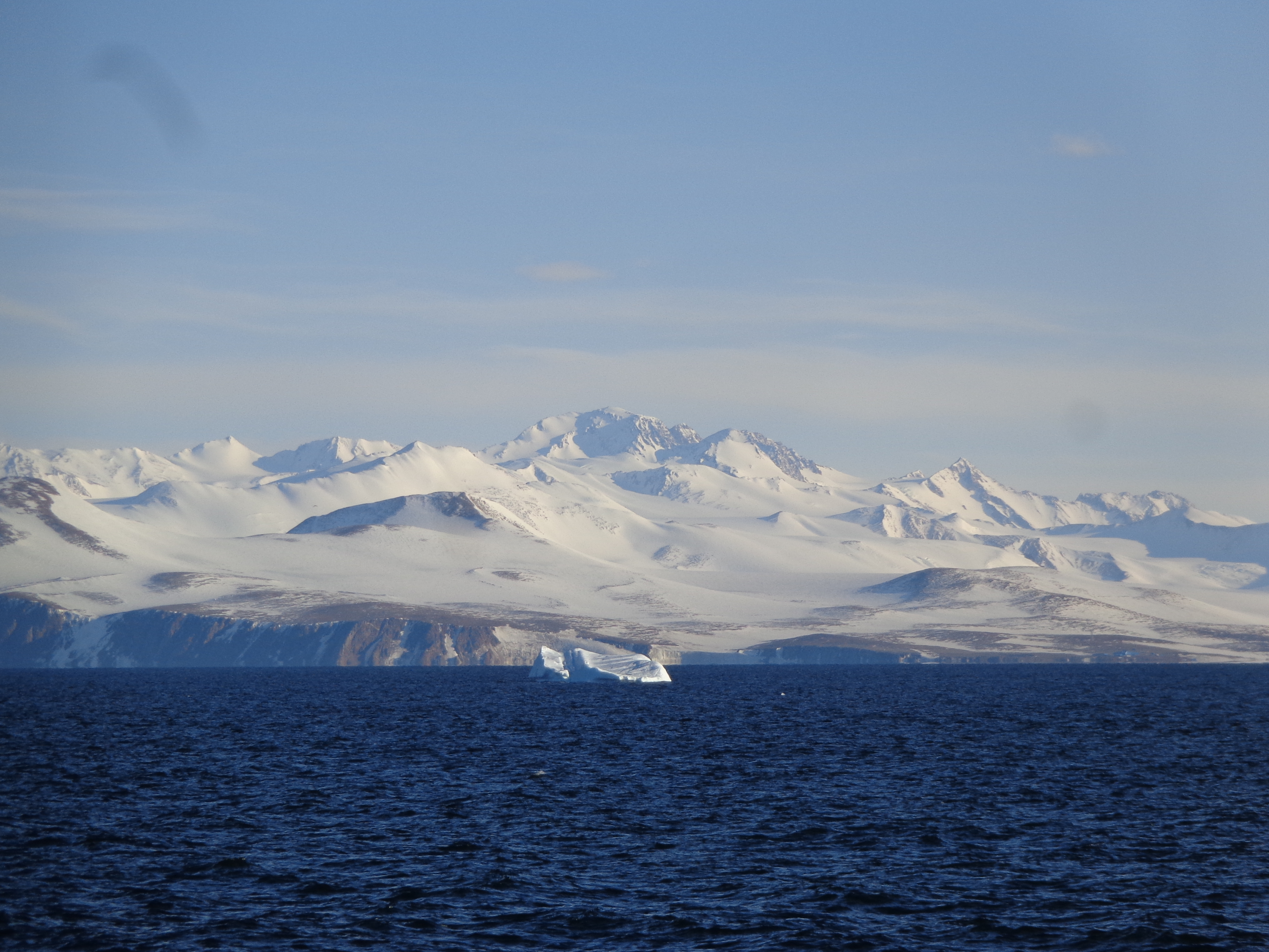 Victoria Land, Antarctica